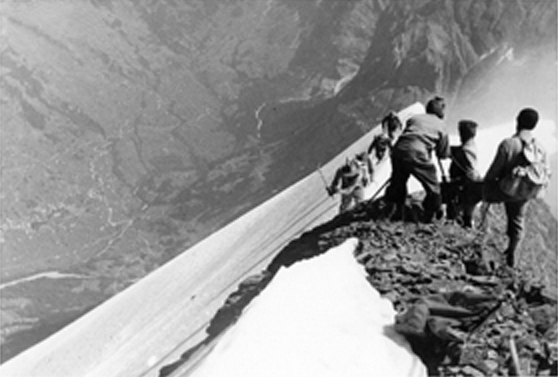 1947 Dokfilm Gratwanderung Condor Films